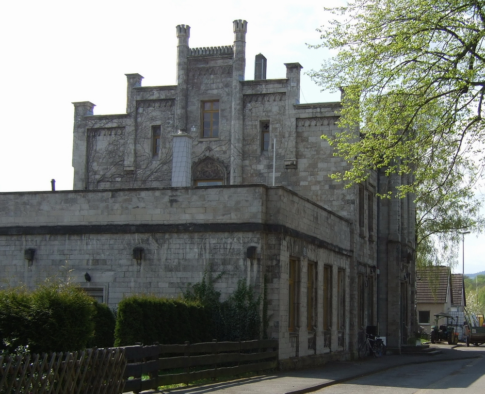 a former railway station in Walkenried, Germany; pictury taken by Dr. Karl Schlemmer in May 2008